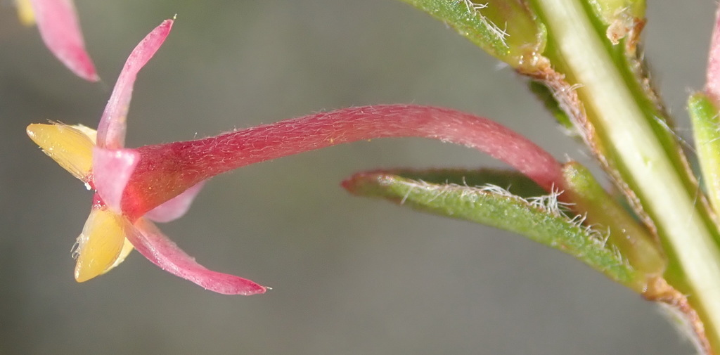 lateral view of a flower of Struthiola striata